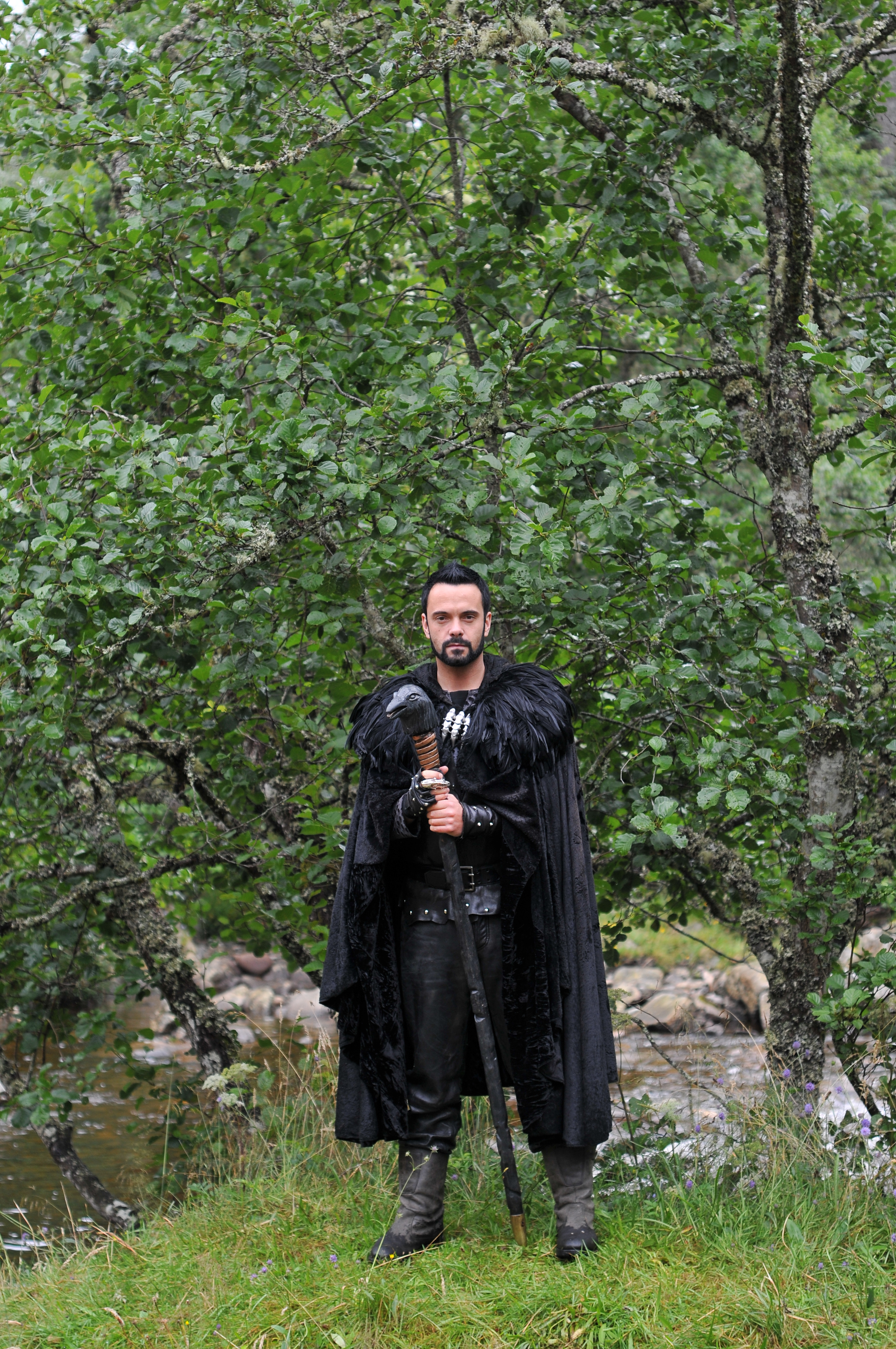 James Mackenzie - Raven CBBC BBC. Please use with attribute to Aaron Sneddon clearly. Photo by Aaron Sneddon.